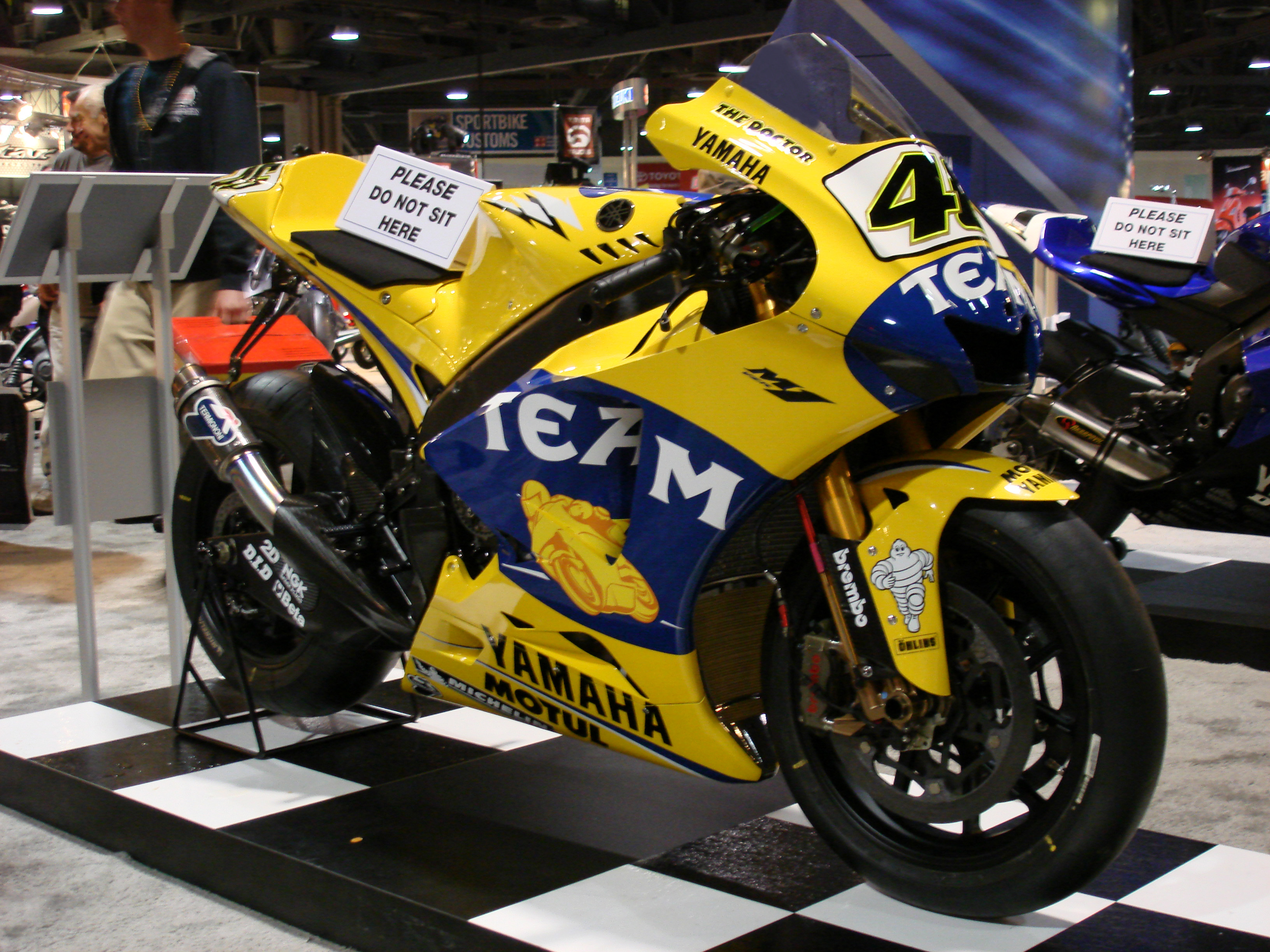 2006 Yamaha YZR-M1 on display at the 2006 International Motorcycle Show in Long Beach, CA. Camera used was a Sony Cyber-shot DSC-W100.